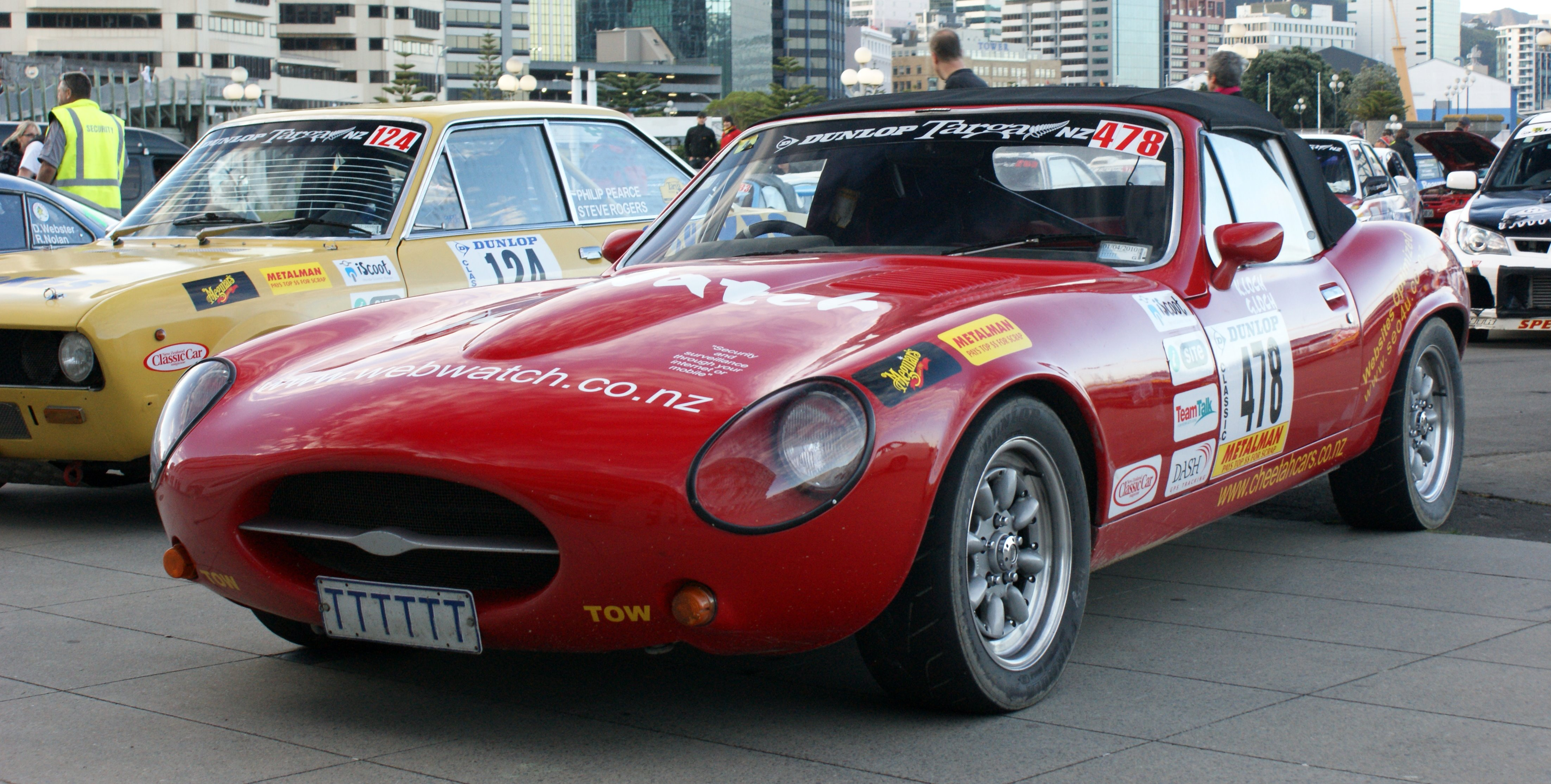 20003 LVVTA Cheetah. The Cheetah was produced by Cheetah Cars of Auckland, New Zealand.